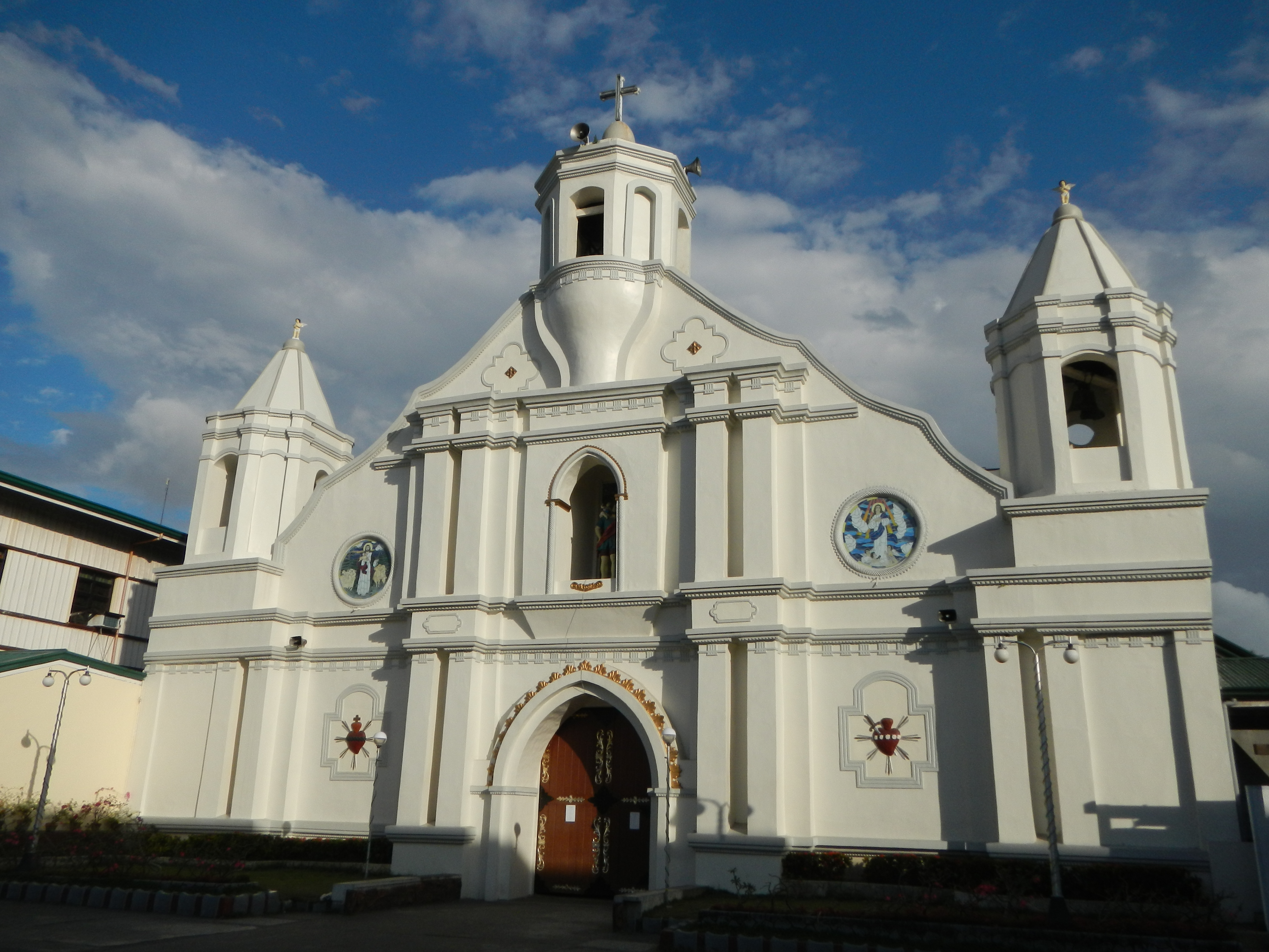 Upload Wizard photos of -- (general description of landmarks, town, church) -Bangar, La Union[1] - most beautiful Town Hall in front of the Bangar Town Plaza in front of the Imelda Cultural Stage, and Saint Christopher Parish Church and Convent of Bangar, Saint Christopher[2] built from 1695-1698 the Covered Court, along the National Highway or Daang Maharlika or Pan-Philippine Highway.